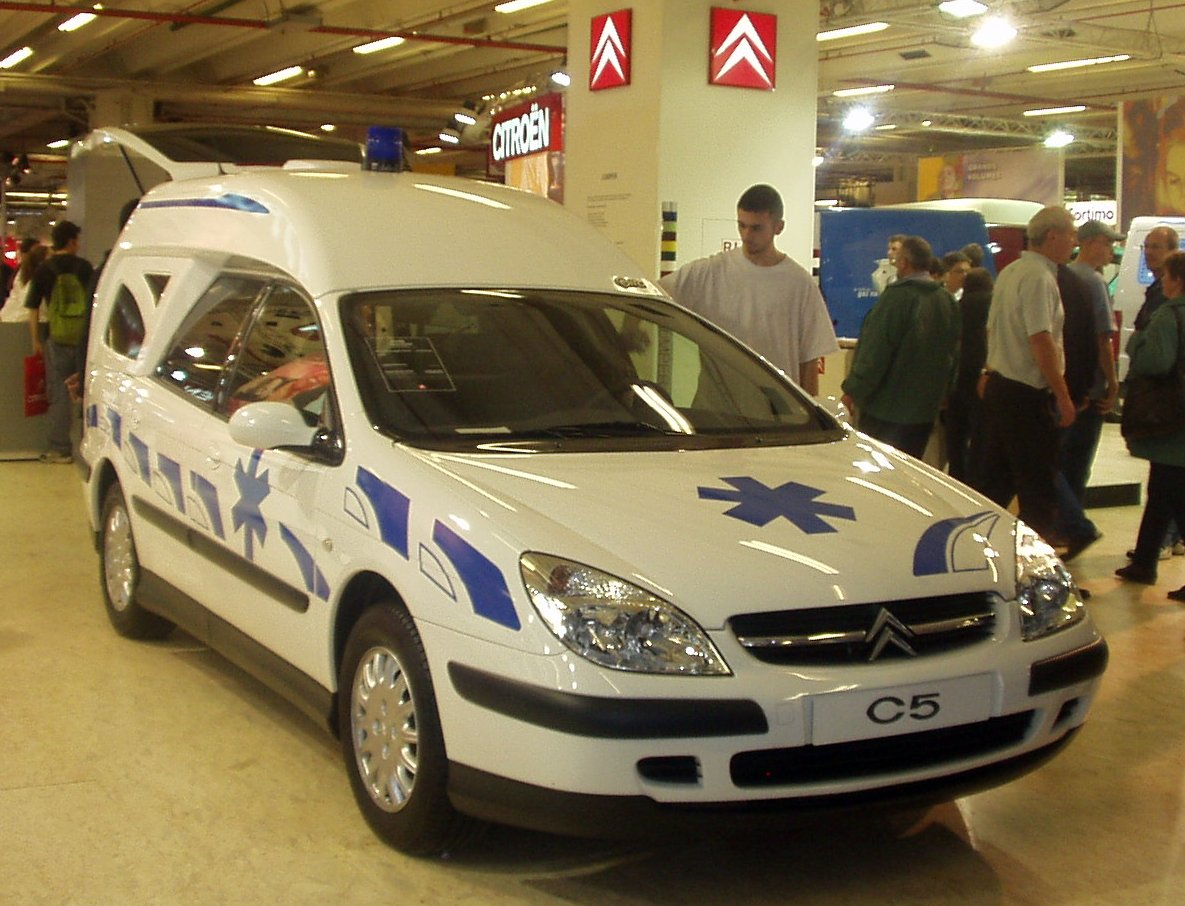 French ambulance